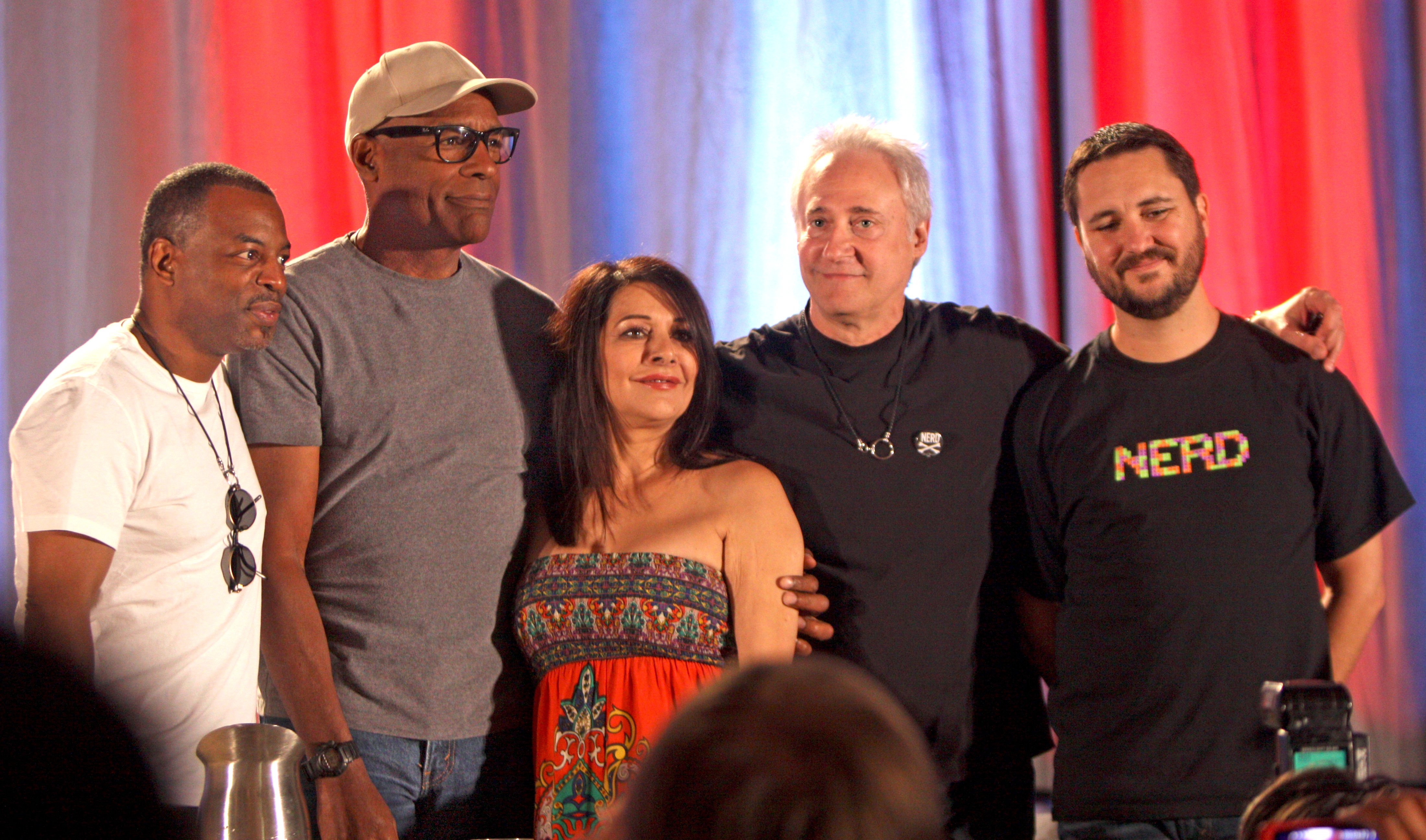 The cast of Star Trek: The Next Generation speaking at the 2012 Phoenix Comicon in Phoenix, Arizona.